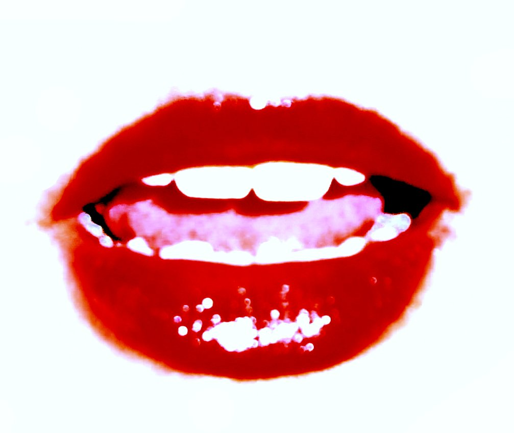 A woman's mouth with lipstick